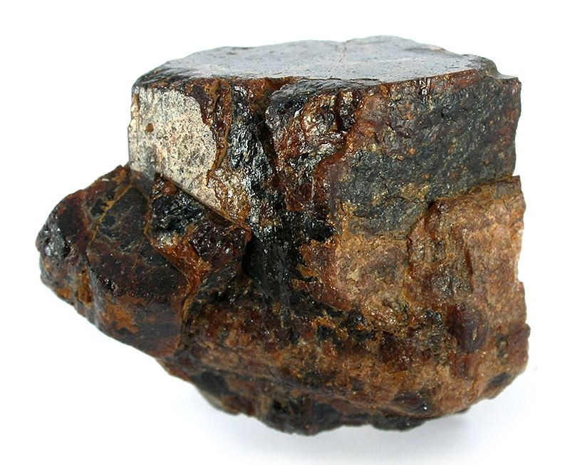 Bastnäsite Locality: Manitou District, El Paso County, Colorado, USA (Locality at ) Size: 4.3 x 3.8 x 3.3 cm. A remarkable and important large crystal, showing a good top termination though with some contact and damage to the sides. Ex. American Museum of Natural History and shows a Bement collection numbering on the bottom, along with the "arrow" that the AMNH curator Gratacap used to show alignment of specimens on a display shelf. This indicates the piece was on display after the donation of the Bement collection around 1910, by JP Morgan. The piece is not as ugly as it looks, in person, and is from a very important old find.